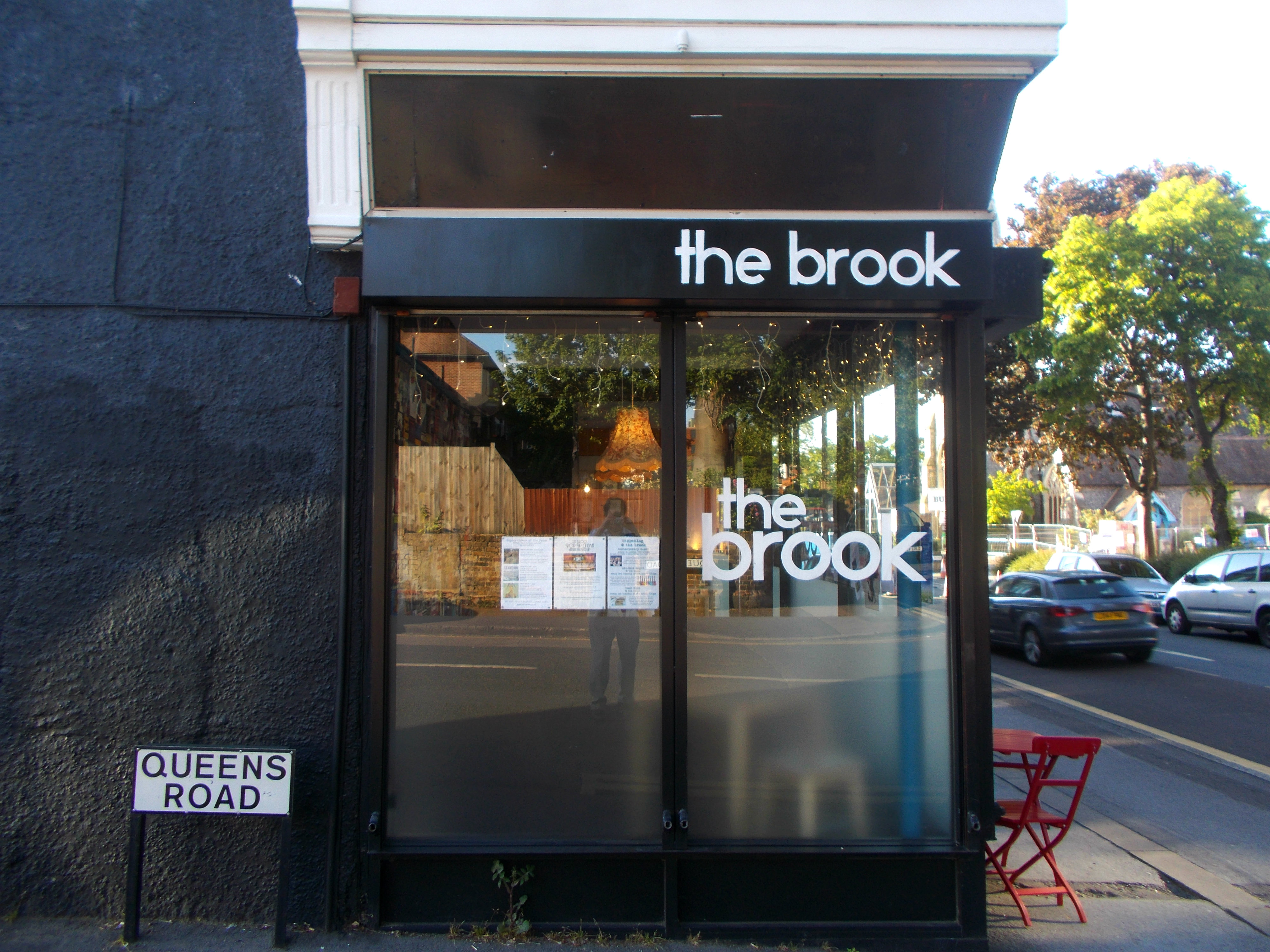 The Brook Cafe, Wallington, London Borough of Sutton